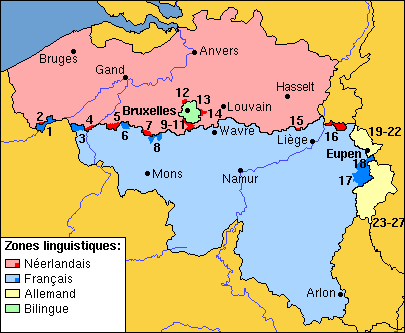 Map of Belgian municipalities with language facilities for speakers of the minority language. Version with French-language place names and legend.